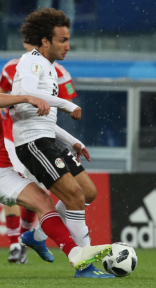 Amr Warda with Egypt in a 2018 FIFA World Cup game against Russia.